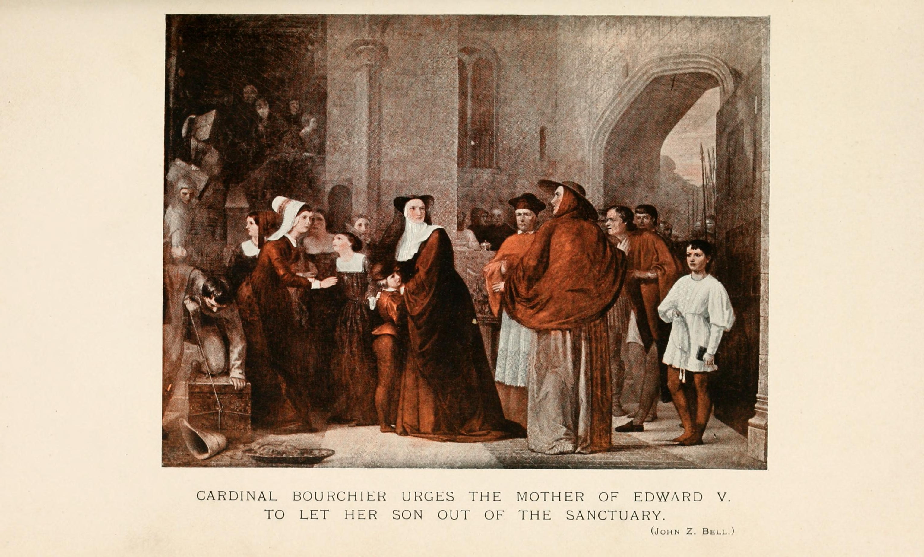 Boy kings and girl queens by Marshall, H. E. (Henrietta Elizabeth), b. 1876 Published [1914] Topics Kings and rulers, Queens SHOW MORE Publisher New York : F.A. Stokes Company Pages 502 Possible copyright status NOT_IN_COPYRIGHT Language English Call number 561967 Digitizing sponsor MSN Book contributor New York Public Library Collection newyorkpubliclibrary; americana Notes Tight margins. Full catalog record MARCXML [Open Library icon]This book has an editable web page on Open Library.